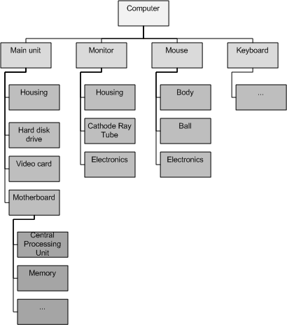 An example Product Breakdown Structure (PBS) showing how a whole product can be progressively broken down into constituent parts.